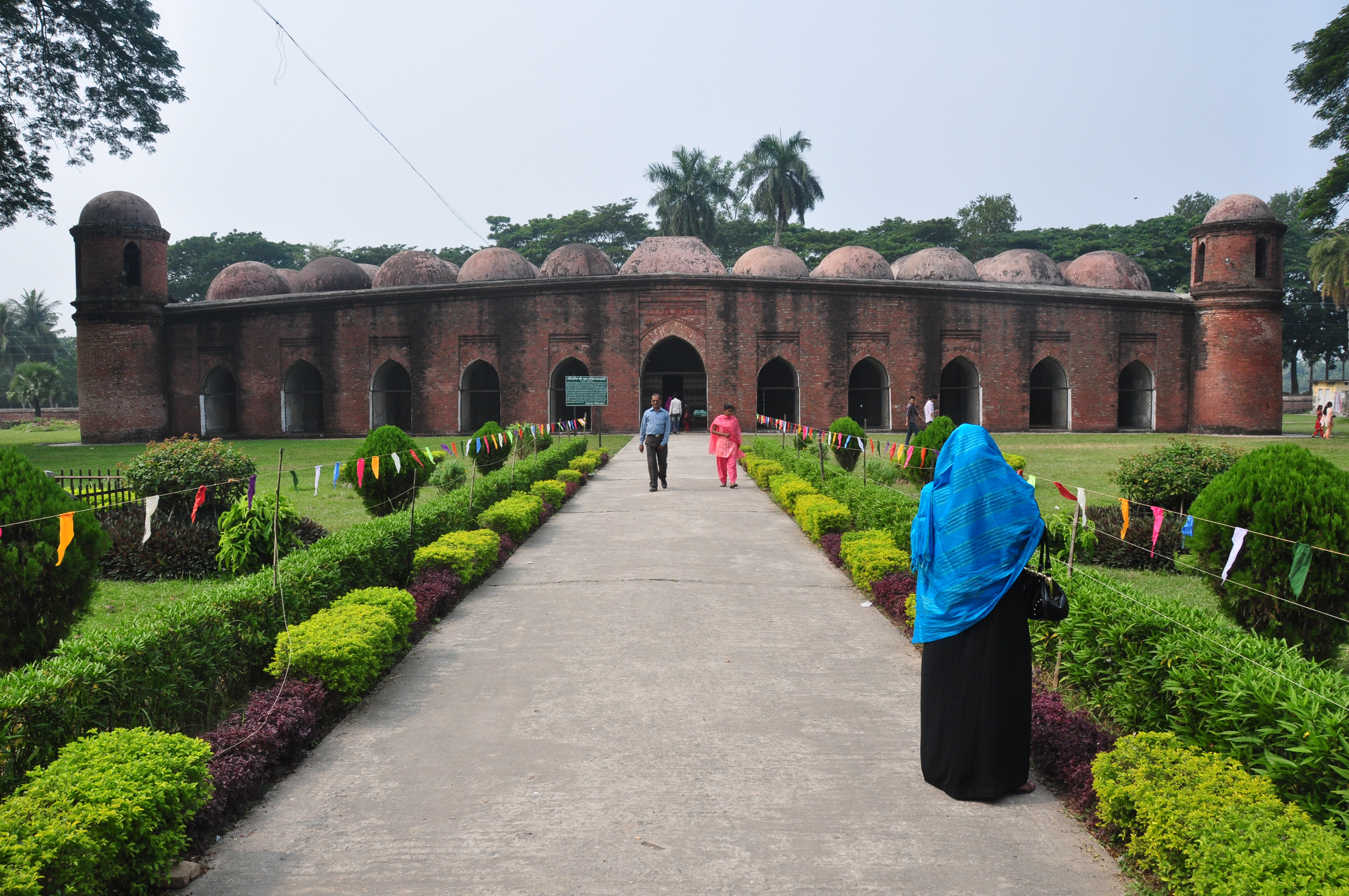 The front of the Shait Gumbad Mosque (Mosque of 60 domes) in Bagerhat, Bangladesh